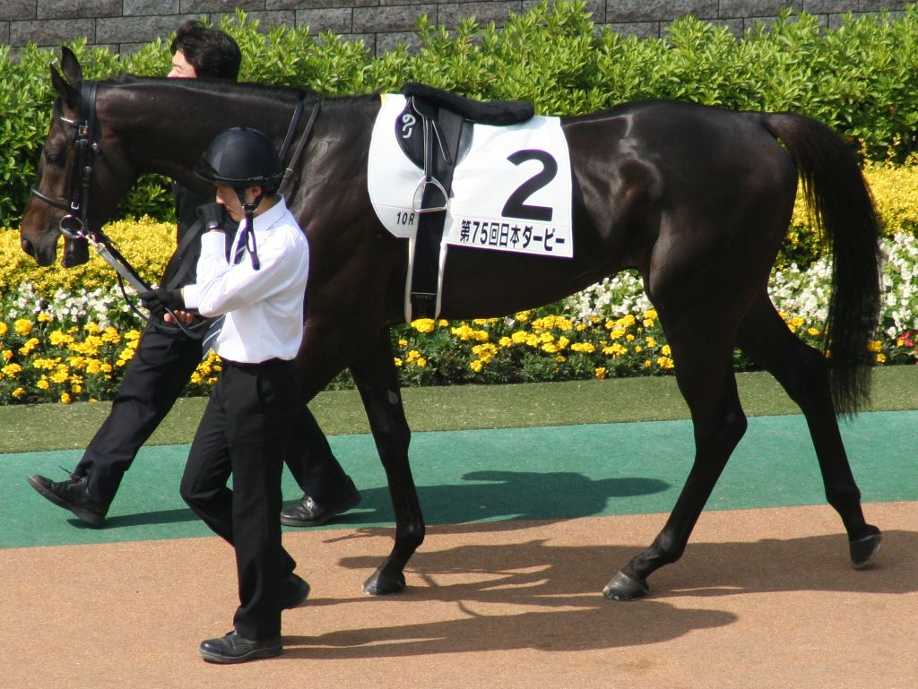 Success Brocken (horse, Tokyo Racecourse)